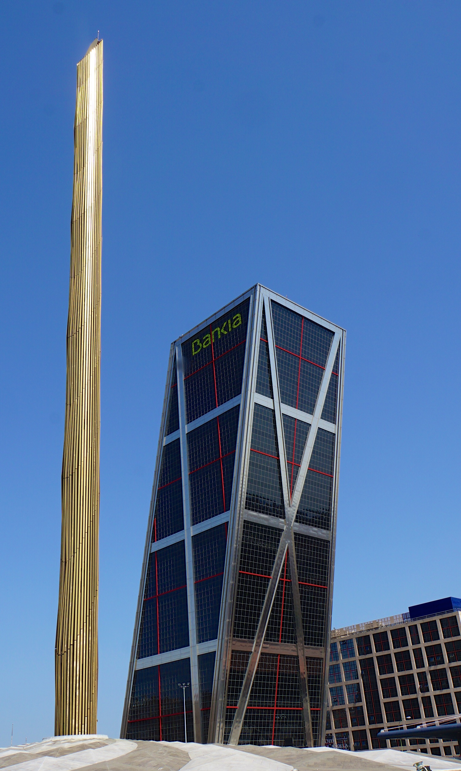 The Gate of Europe towers (Spanish: Puerta de Europa), also known as KIO Towers (Torres KIO) The Gate of Europe towers (Spanish: Puerta de Europa), also known as KIO Towers (Torres KIO)